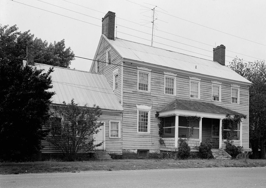 Cannon Hall, Road 79 at Woodland Ferry, Woodland (Sussex County, Delaware) cropped This file comes from the Historic American Buildings Survey (HABS), Historic American Engineering Record (HAER) or Historic American Landscapes Survey (HALS). These are programs of the National Park Service established for the purpose of documenting historic places. Records consist of measured drawings, archival photographs, and written reports. When reusing please credit: Library of Congress, Prints & Photographs Division, DEL,3-WOOD,2-1 This tag does not indicate the copyright status of the attached work. A normal copyright tag is still required. See Commons:Licensing for more information. This work is in the public domain in the United States because it is a work prepared by an officer or employee of the United States Government as part of that person’s official duties under the terms of Title 17, Chapter 1, Section 105 of the US Code. See Copyright. Note: This only applies to original works of the Federal Government and not to the work of any individual U.S. state, territory, commonwealth, county, municipality, or any other subdivision. This template also does not apply to postage stamp designs published by the United States Postal Service since 1978. (See § 313.6(C)(1) of Compendium of U.S. Copyright Office Practices). It also does not apply to certain US coins; see The US Mint Terms of Use. This file has been identified as being free of known restrictions under copyright law, including all related and neighboring rights. Object location38° 36′ 00″ N, 75° 39′ 25″ W